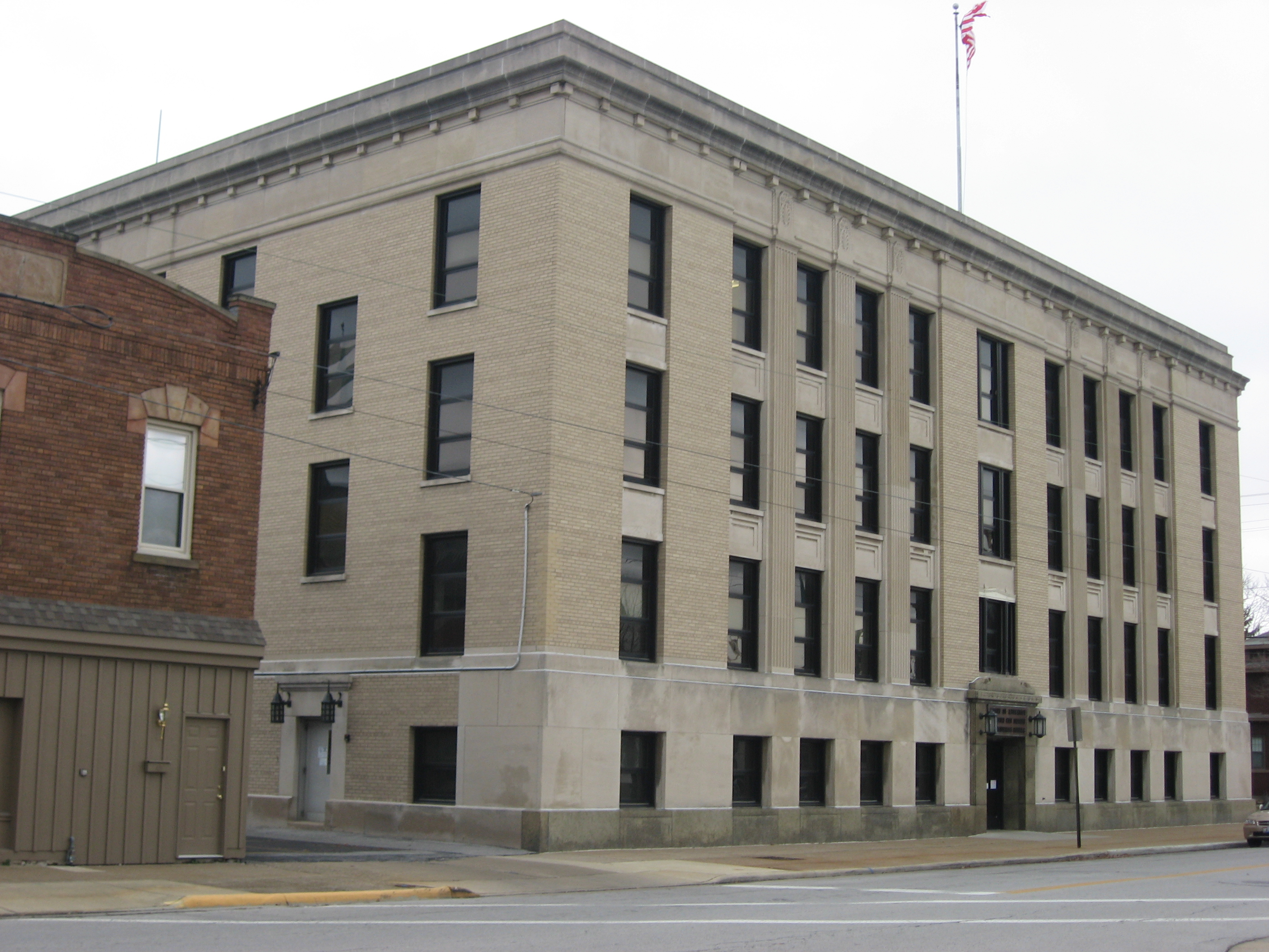 Front of one of the former Hinde & Dauch Paper Company buildings, located at 407 Decatur Street in Sandusky, Ohio, United States. Built in 1926 and since converted into offices for the local school district, it is listed on the National Register of Historic Places.